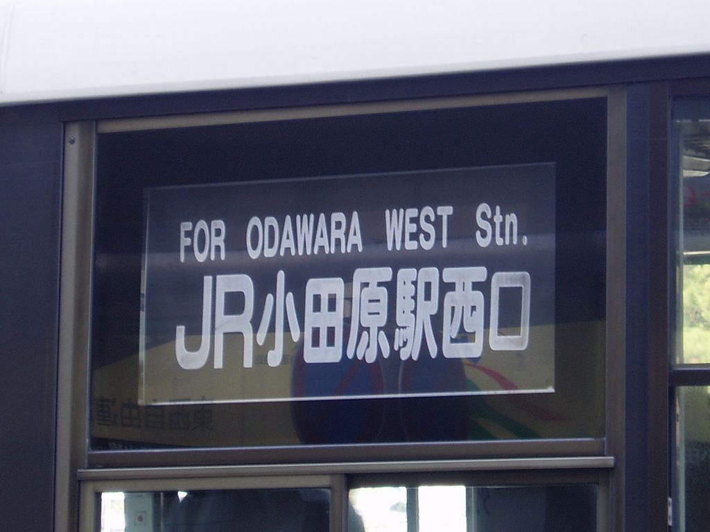 Sideboard of Izuhakone Bus.